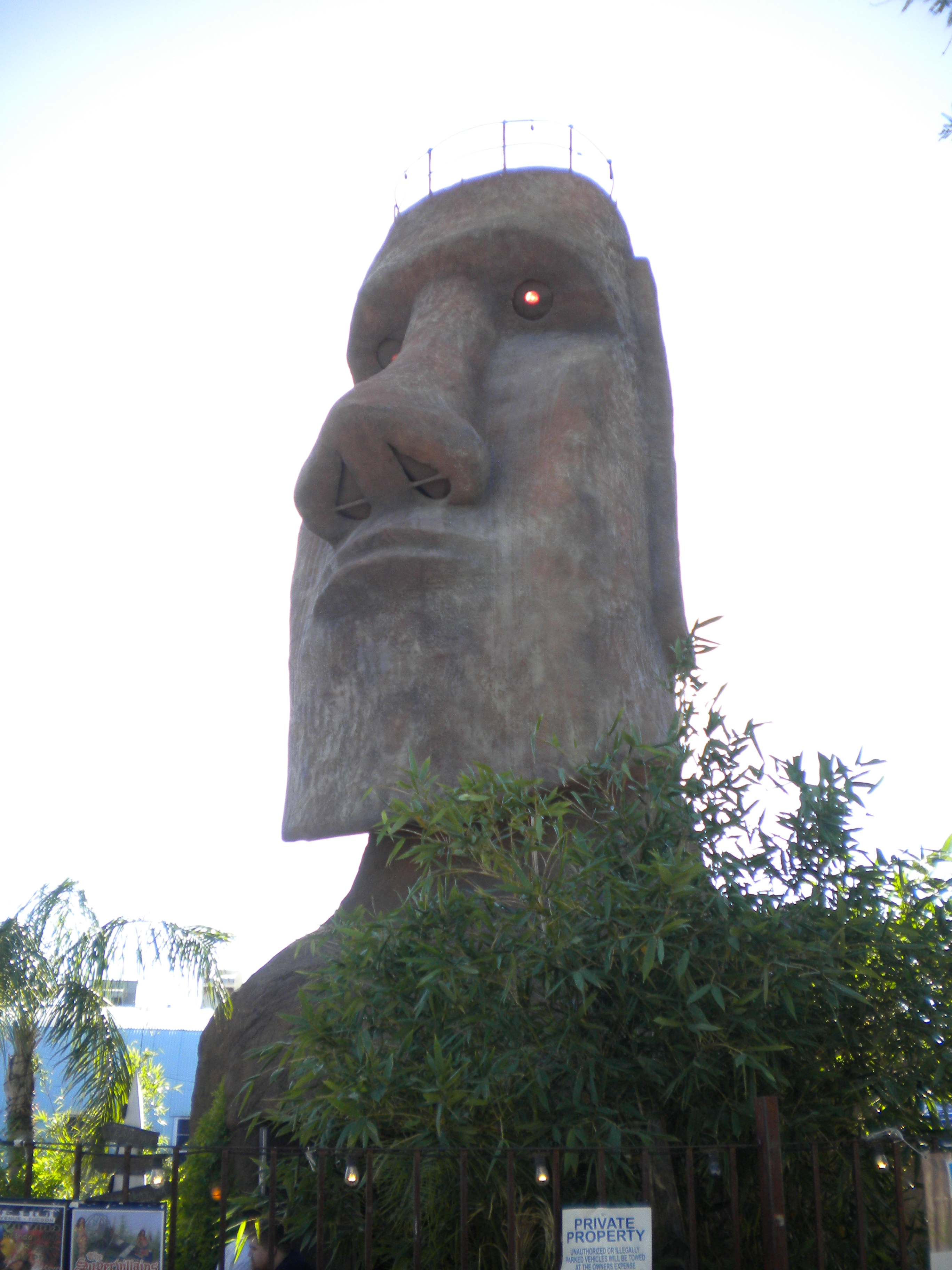 A 25-ton Tiki head in Arizona formally located at Tucson’s Magic Carpet Golf however the mini-golf course closed in late 2007. The head is now located at The Hut, Beach Bar & Lounge. It took a year and $20,000 from a loyal local community, but the head has a new home.